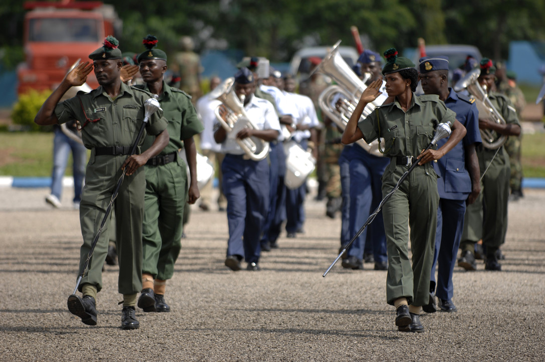 Members of the Nigerian Amy and Air Force band present arms as they participate in the pass and review during the Africa Endeavor 2008 opening ceremony July 16, 2008 Nigerian Air Force Base, Abuja. AE- 08, a U.S. European Command-sponsored exercise, brings the U.S. and African nations together to plan and execute interoperability testing of command, control, communications and computer systems from participant nations in preparation for future African humanitarian, peacekeeping and disaster relief operations. (U. S. Air Force photo by U.S. Air Force Airman 1st Class Nathan Lipscomb) (Released)